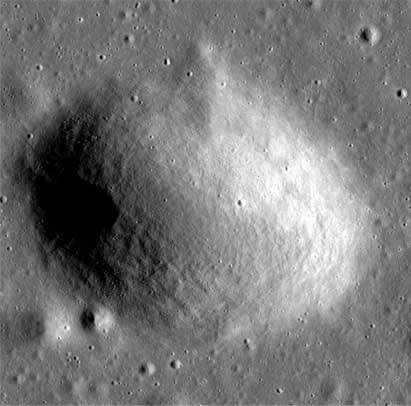 LROC NAC image M180916096LC